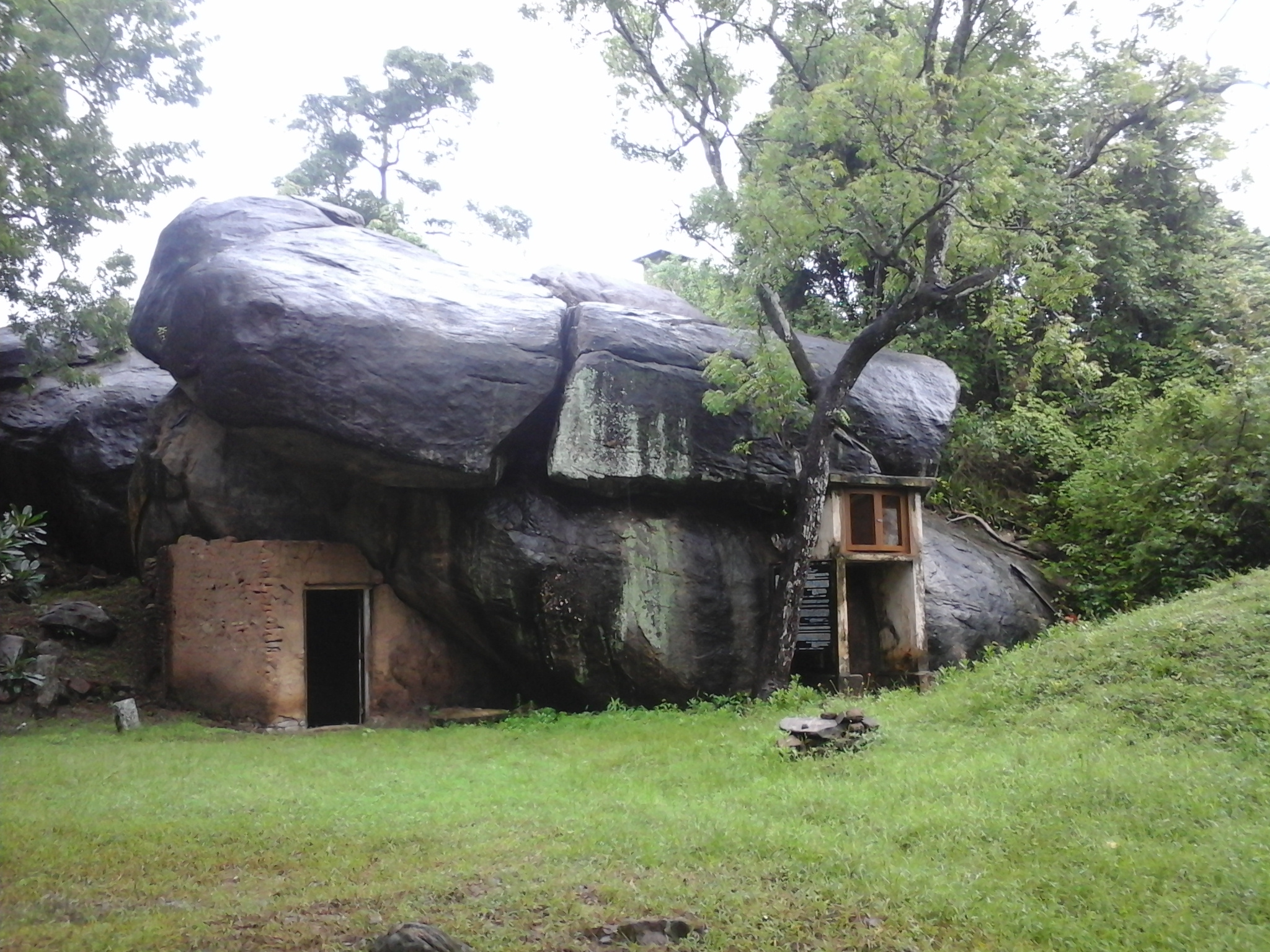 Gonagolla vihara, Ampara, Sri Lanka - Vihara premises